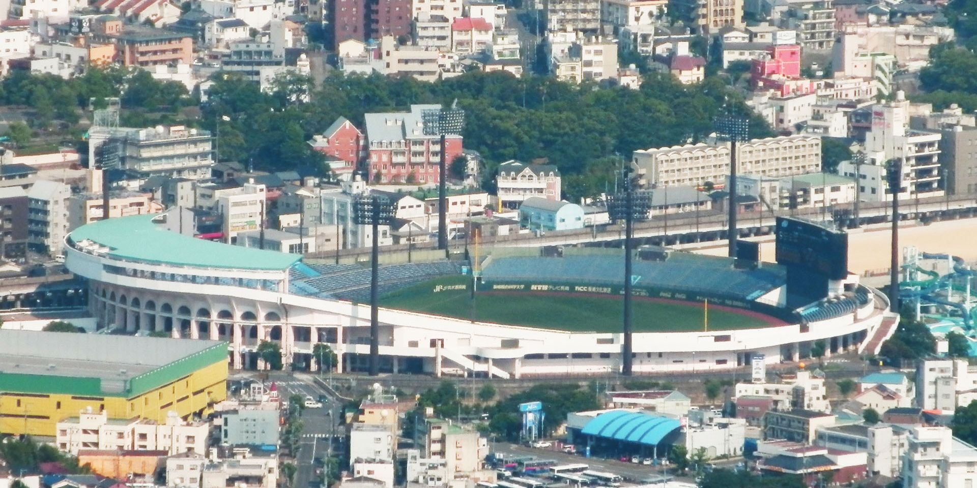 Nagasaki big N stadium overhead view photo